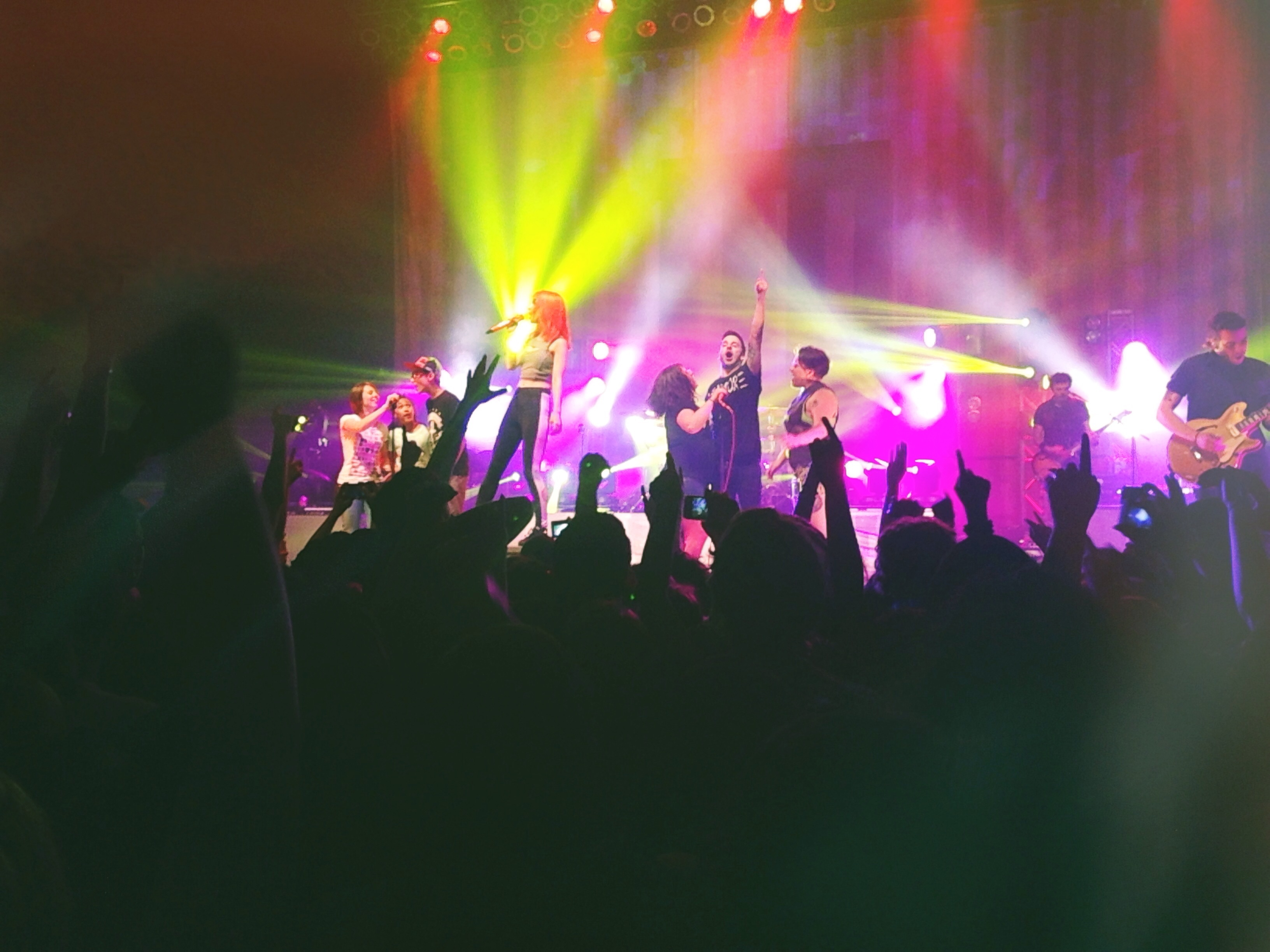 Paramore Houston, TX April 25, 2013 Set list _________ Moving On Misery Business For A Pessimist Decode Now Renegade Pressure Aint It Fun The Only Exception Let The Flames Begin Fast In My Car Ignorance Looking Up Whoa Anklebiters That's What You Get Still Into You Hate To See Your Heart Break Proof Brick By Boring Brick